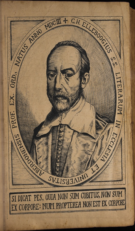 Recto leaf from front matter of De eoconomiae architecturalis spiritualisque ss. Templo; a tabernaculo Mosis ad visiones Ezechelitae de novissimis, libri quinque, 2 vols. (Leiden: Pieter Trommelvlies, 1683-1689).